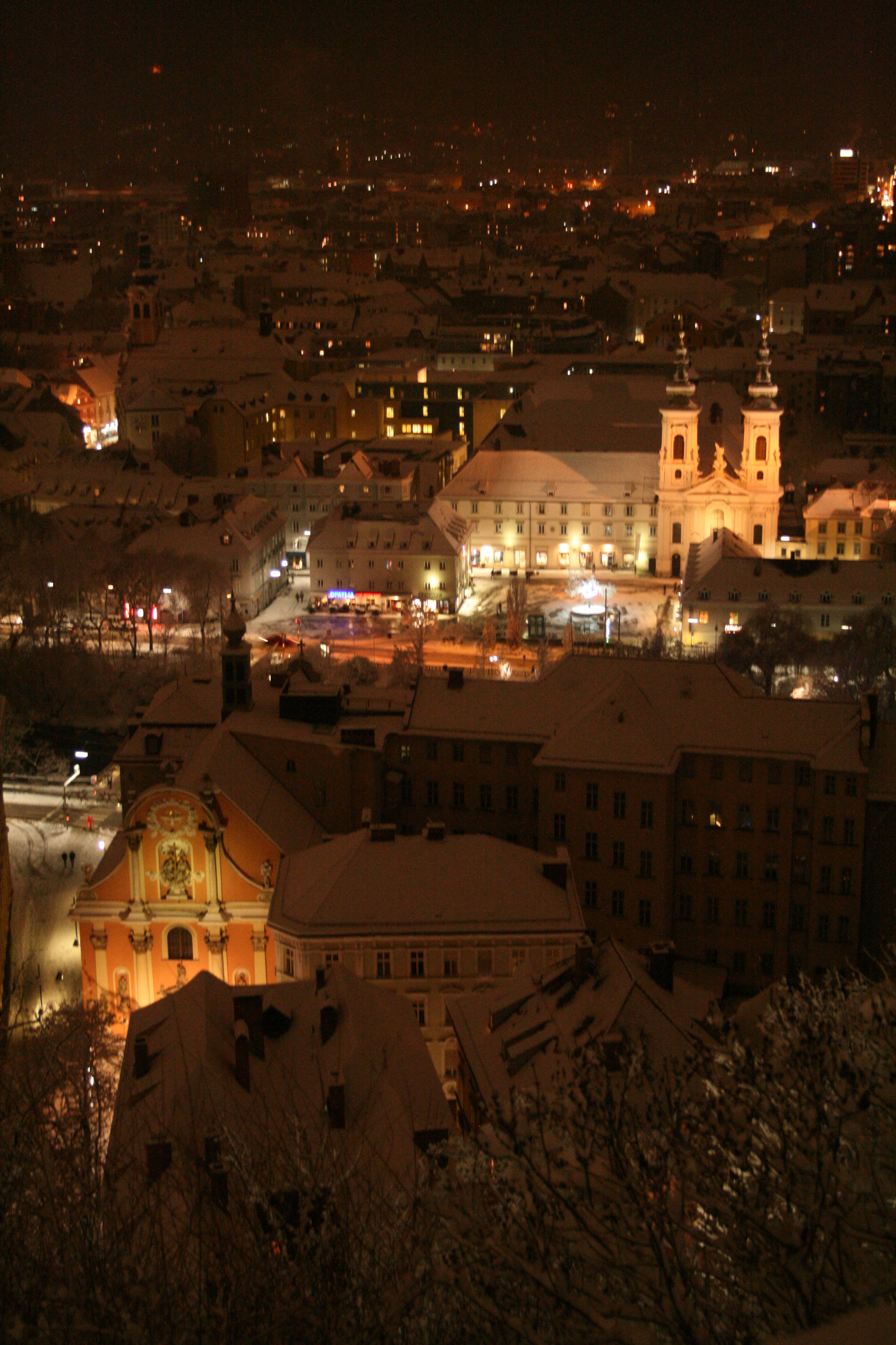 Graz, Austria, Europe